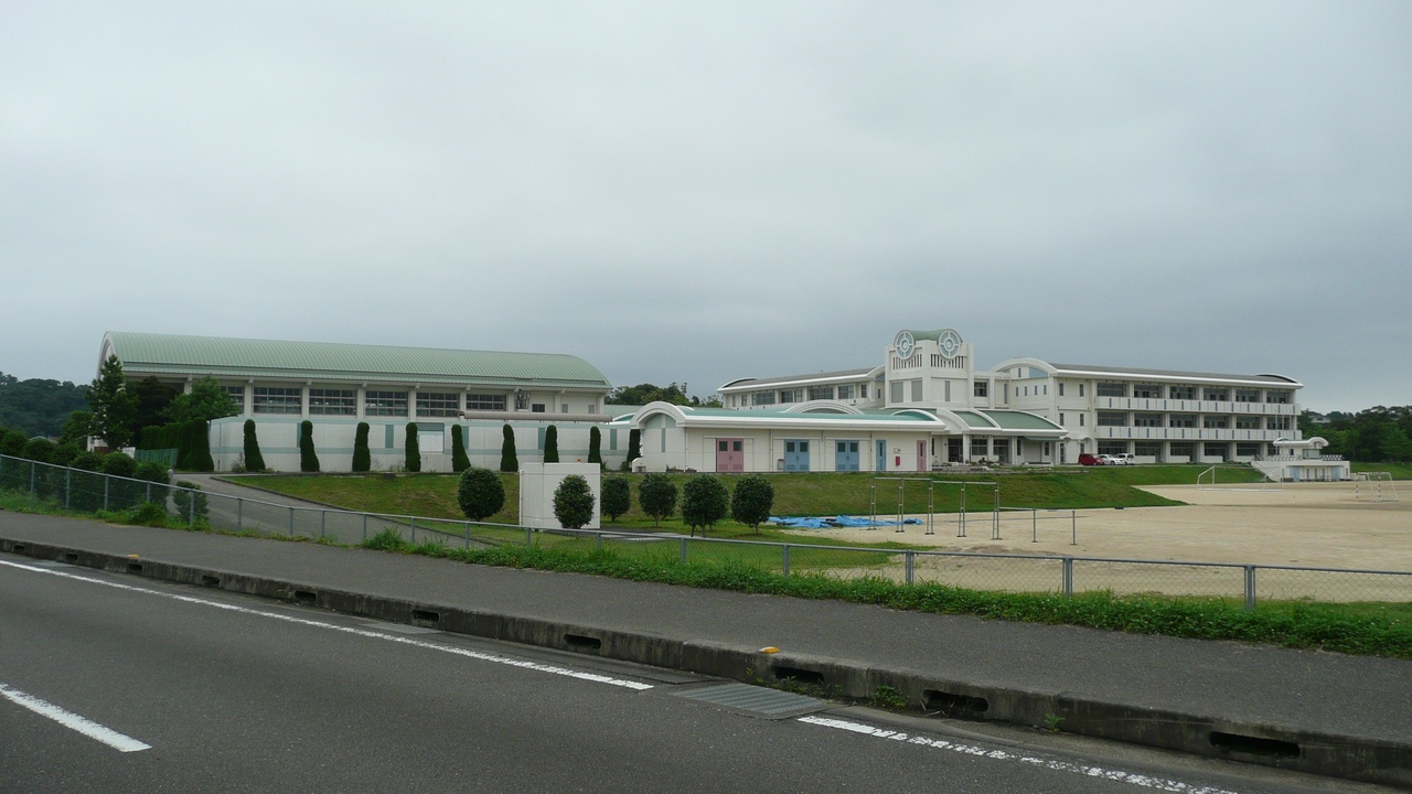 Kano Junior High School (Kiyotake, Miyazaki City, Japan)